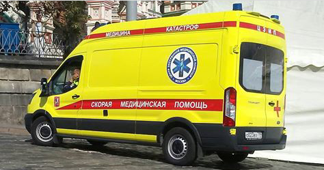 Ford Transit used by the Scientific and practical center of emergency medical care of the Department of health of Moscow